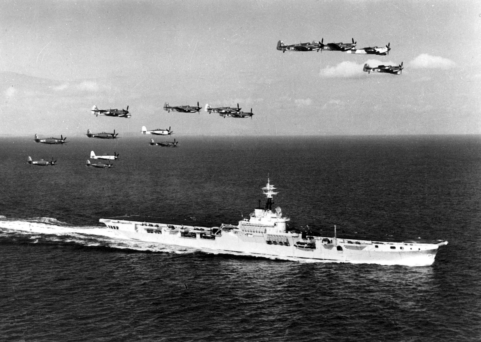 Eight Fairey Firefly FR.1 and seven Hawker Sea Fury FB.11 overfly the Royal Australian Navy aricraft carrier HMAS Sydney (R17).